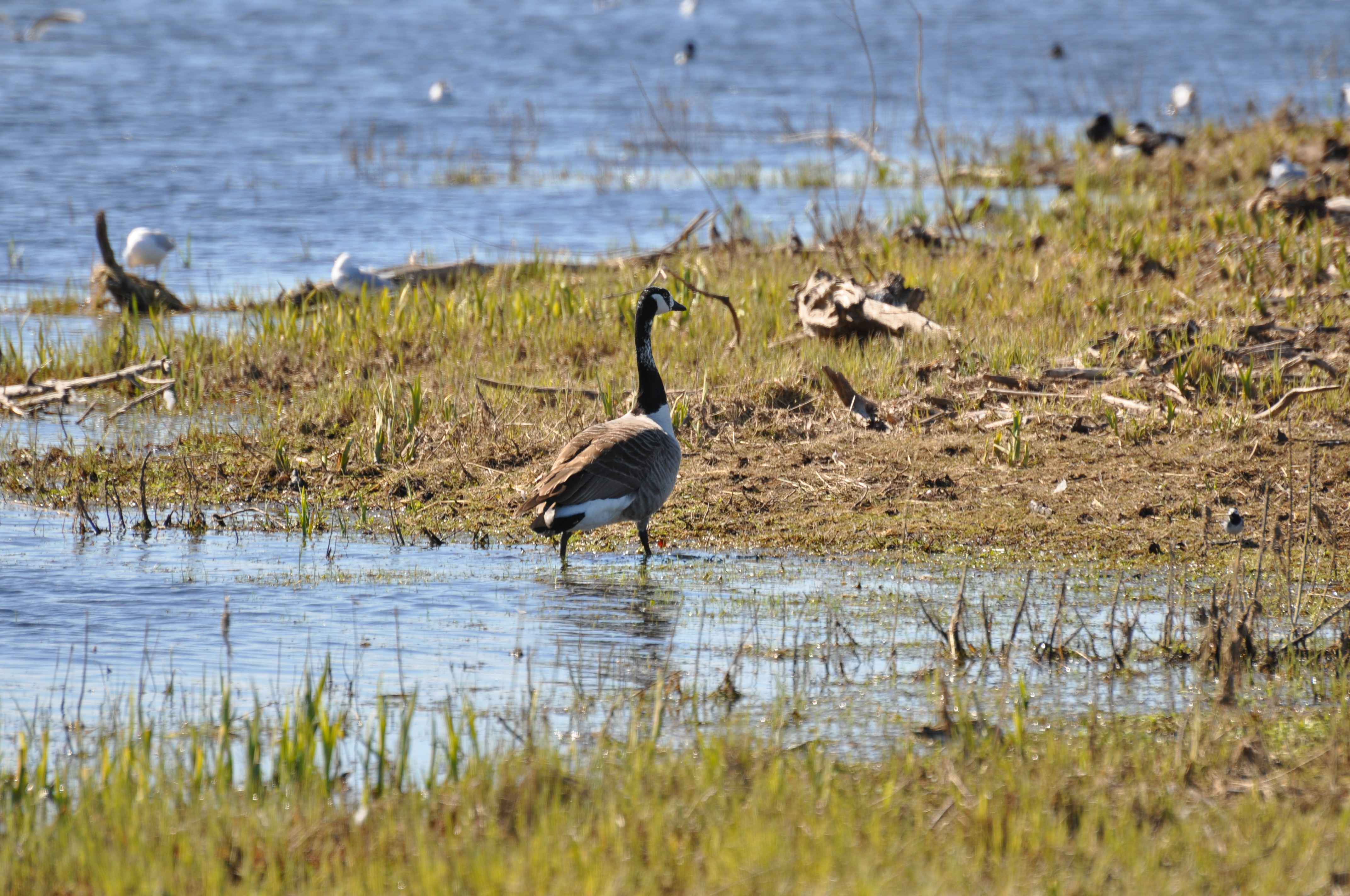 A canada goose in the water of lake hornborga.